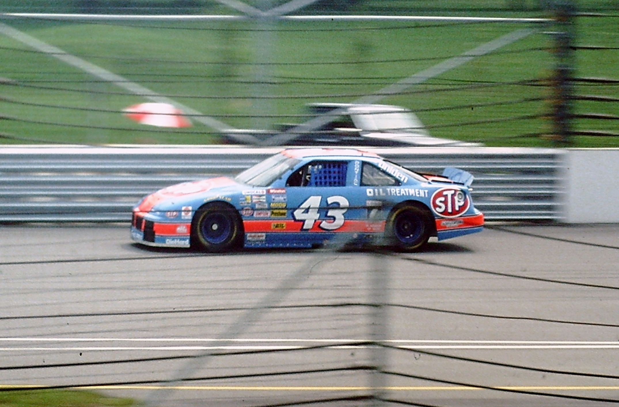 1993 NASCAR Brickyard 400 Open Test at the Indianapolis Motor Speedway. Richard Petty in car #43